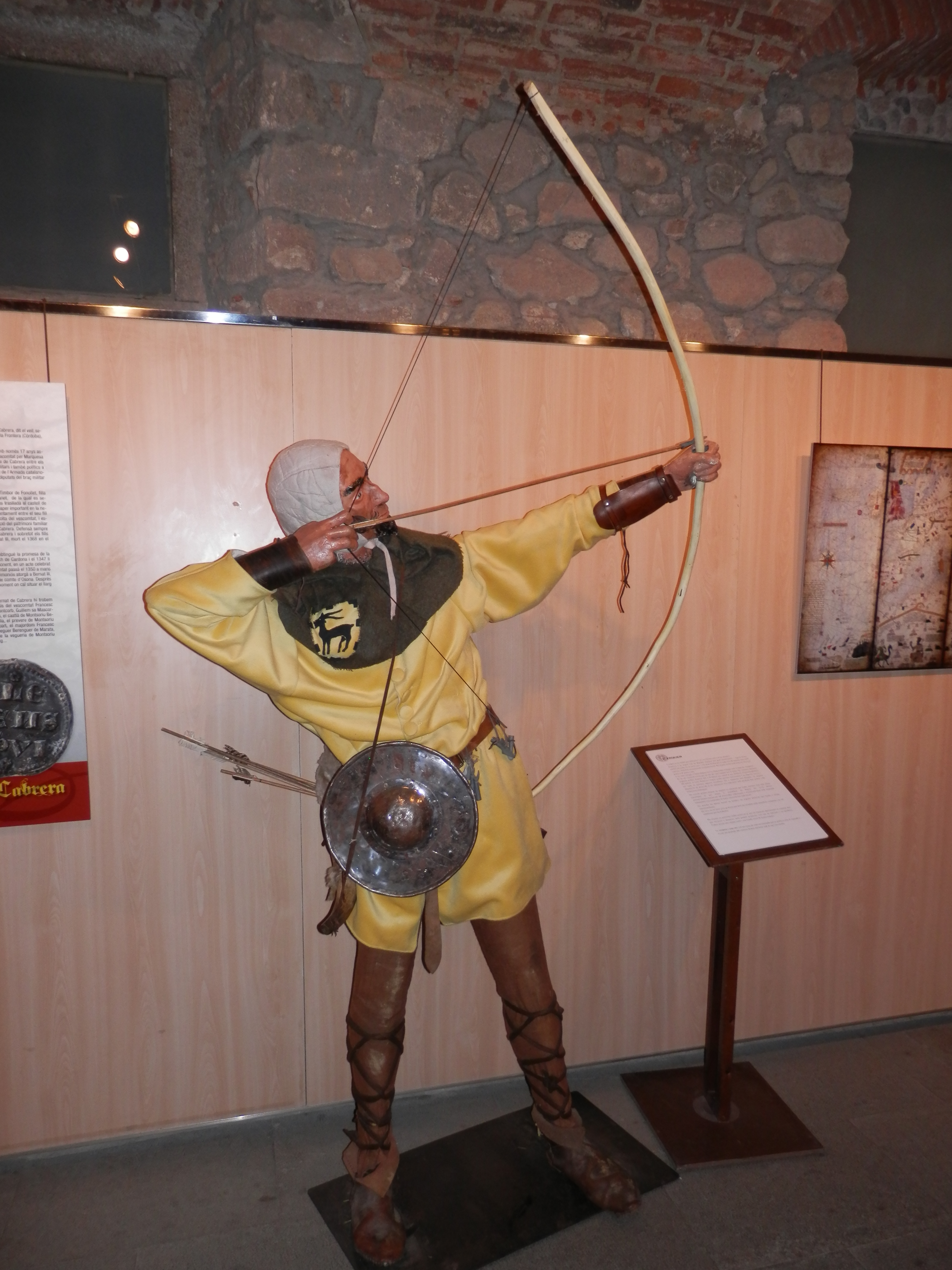 Representation of an archer of the catalan viscount Bernat II de Cabrera.